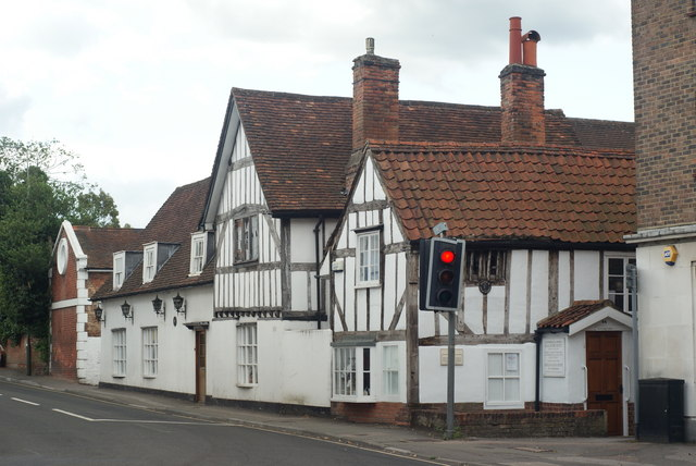 Leatherhead Museum, Surrey. I've been past this building enough times; I'll have to pay a visit!